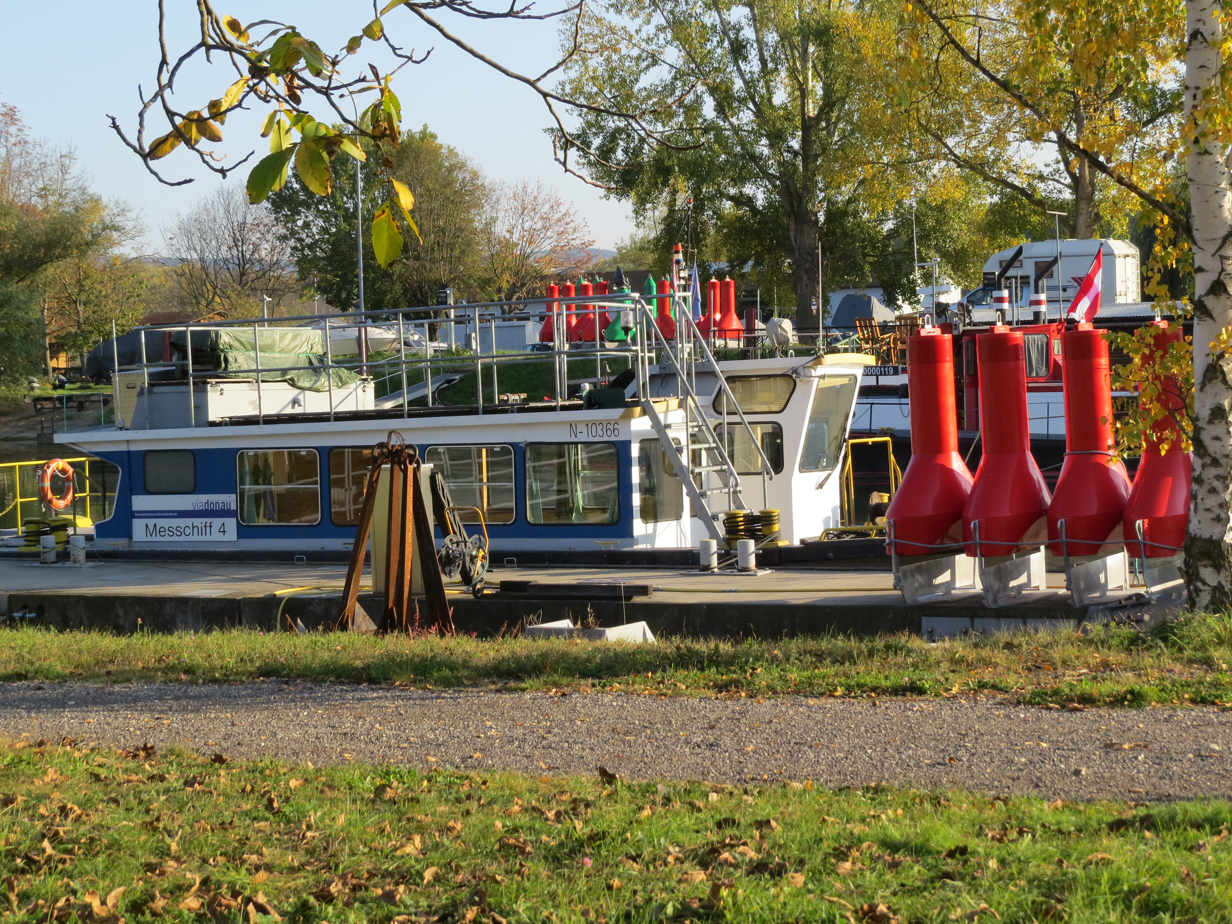 Measure ship 4 from viadonau N-10366 in Krems an der Donau, Austria